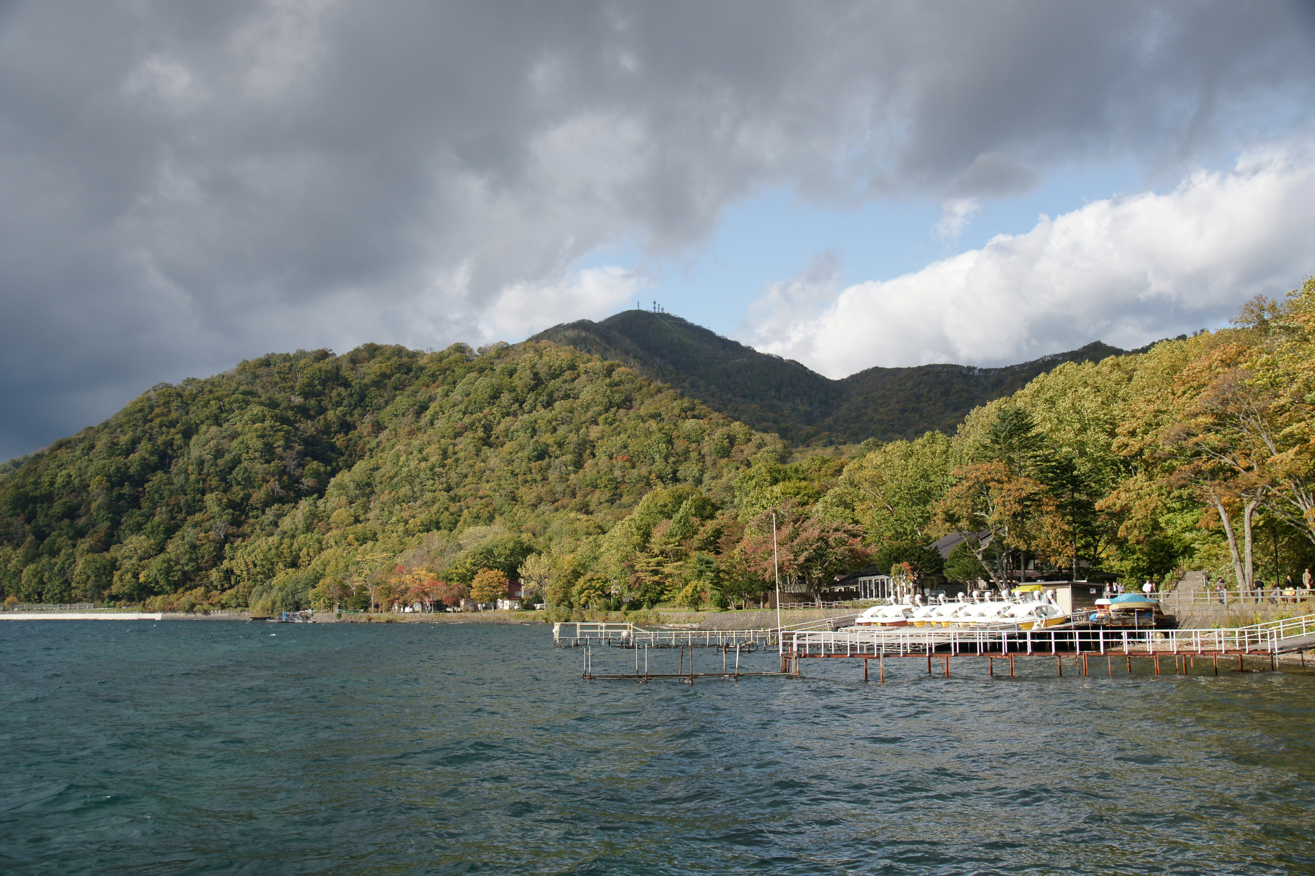 Mt. Monbetsu-dake view from Lake Shikotsu, Chitose, Hokkaido prefecture, Japan